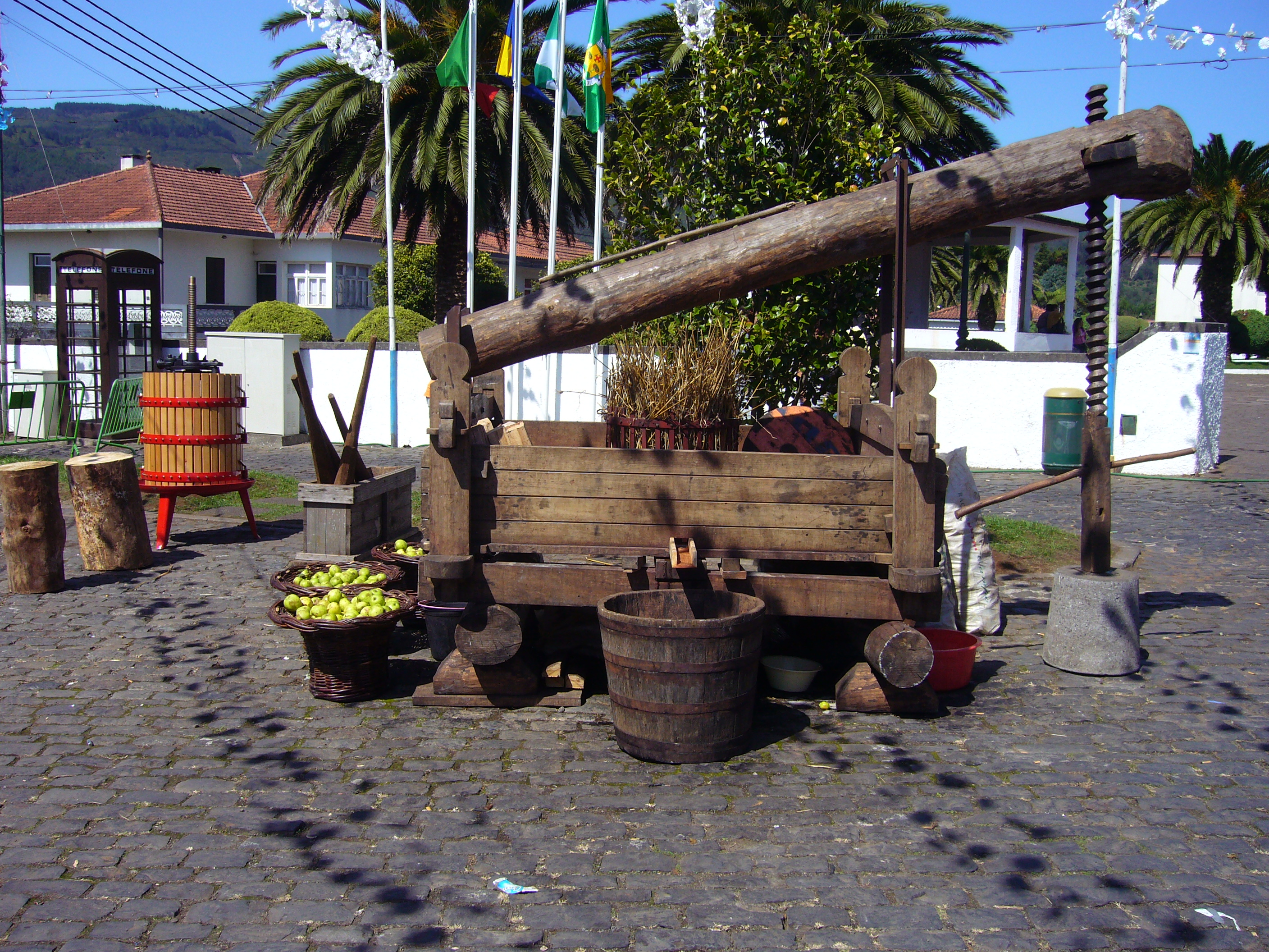 Scene of the Feast of Apples in Santo Antonio da Serra (Madeira)